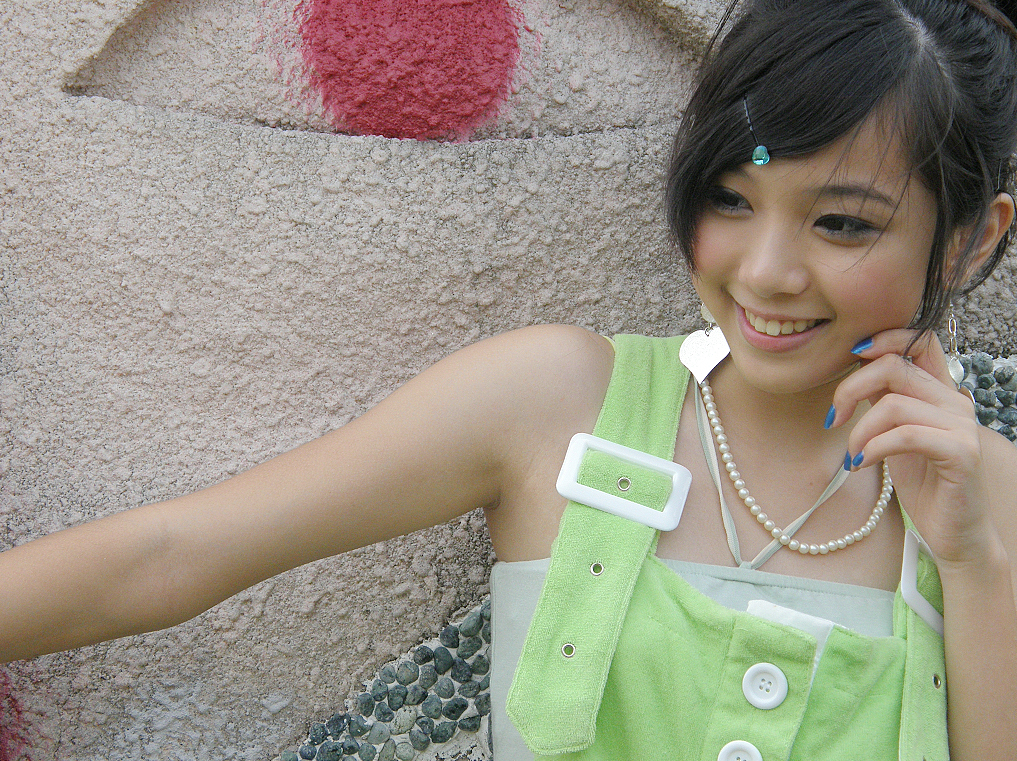 Angela Zheng's picture at aborigine park in Taipei